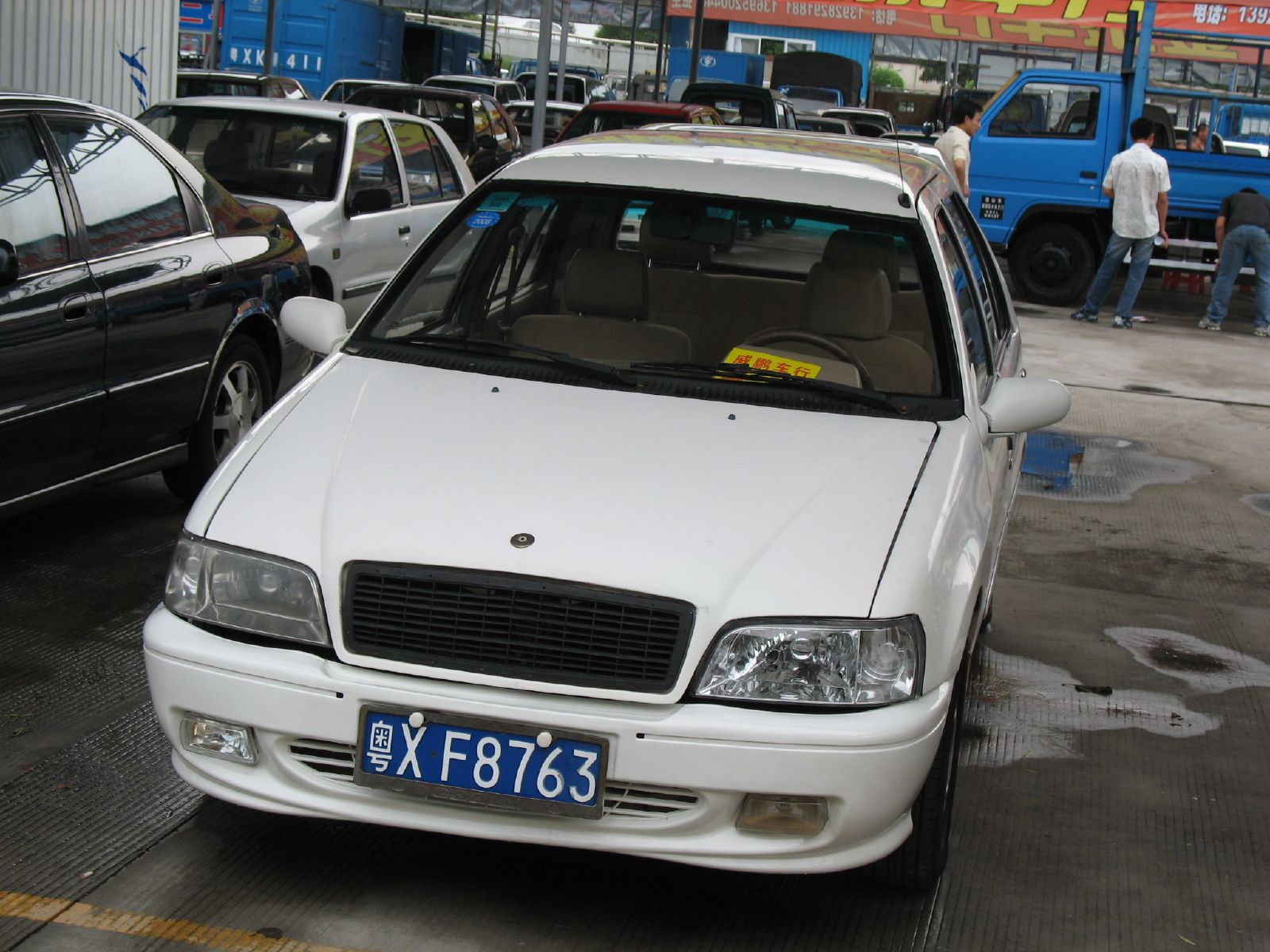 粤XF8763 Geely HQ -- 07年6月Used Car Mall, GuangZhou 广州二手车市场